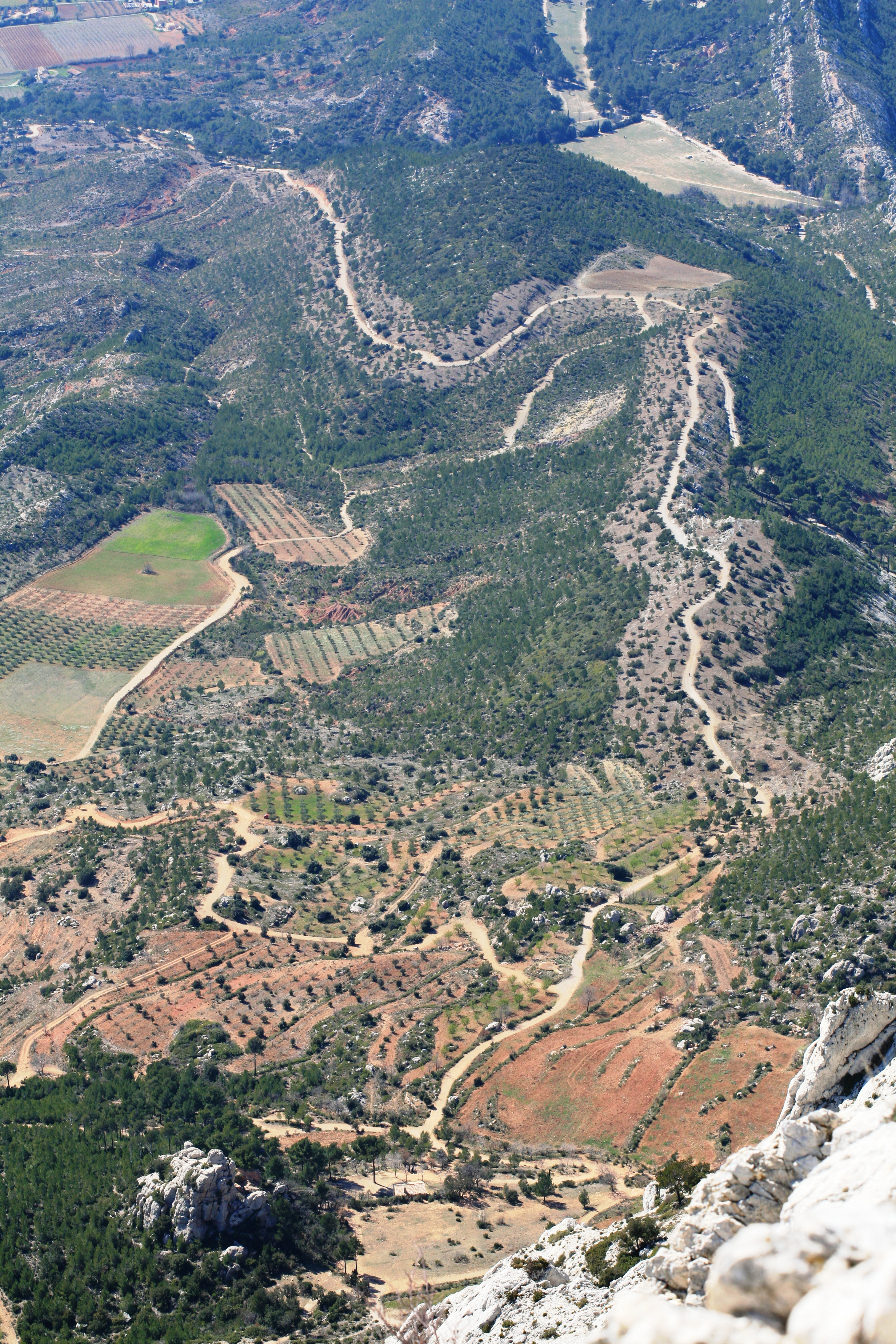 Foot at south west of the Sainte Victoire montain near Aix-en-Provence, France